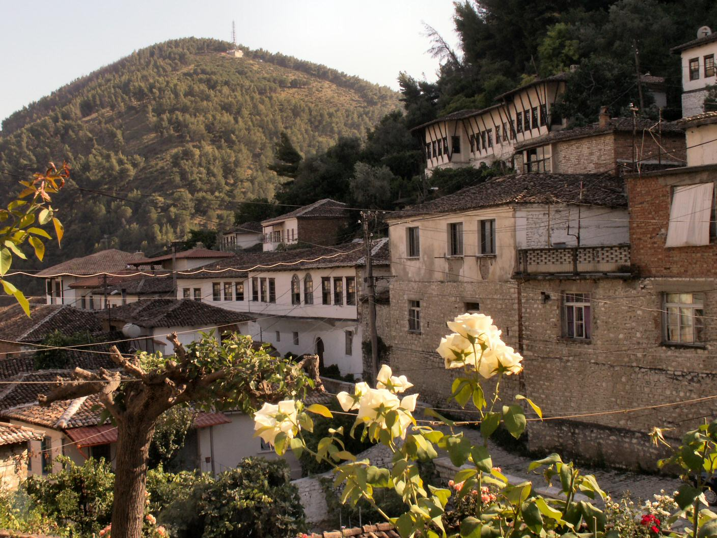 old town berat 2016